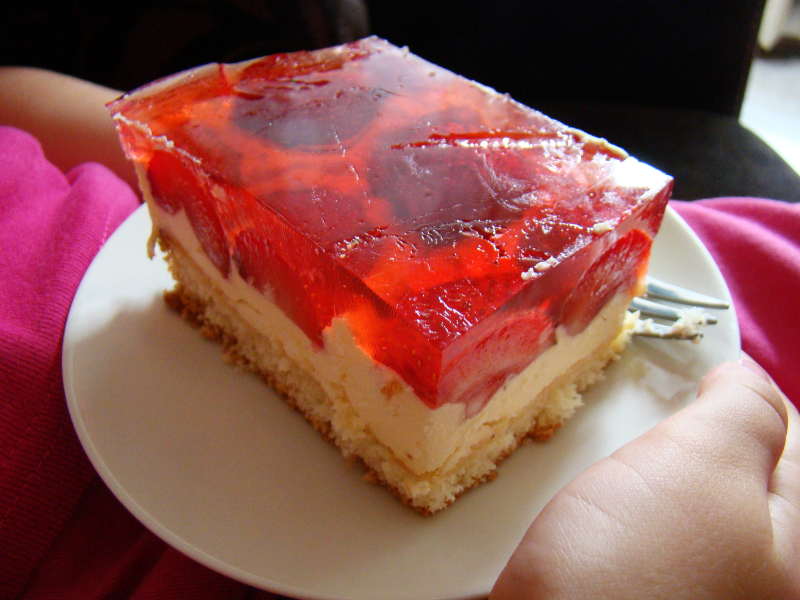 cakes in Sanok